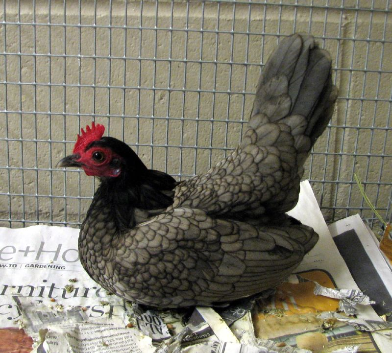 A bantam hen, probably a Japanese Bantam. Flickr description calls it a Sebright, but the plumage and comb don't conform to that breed.